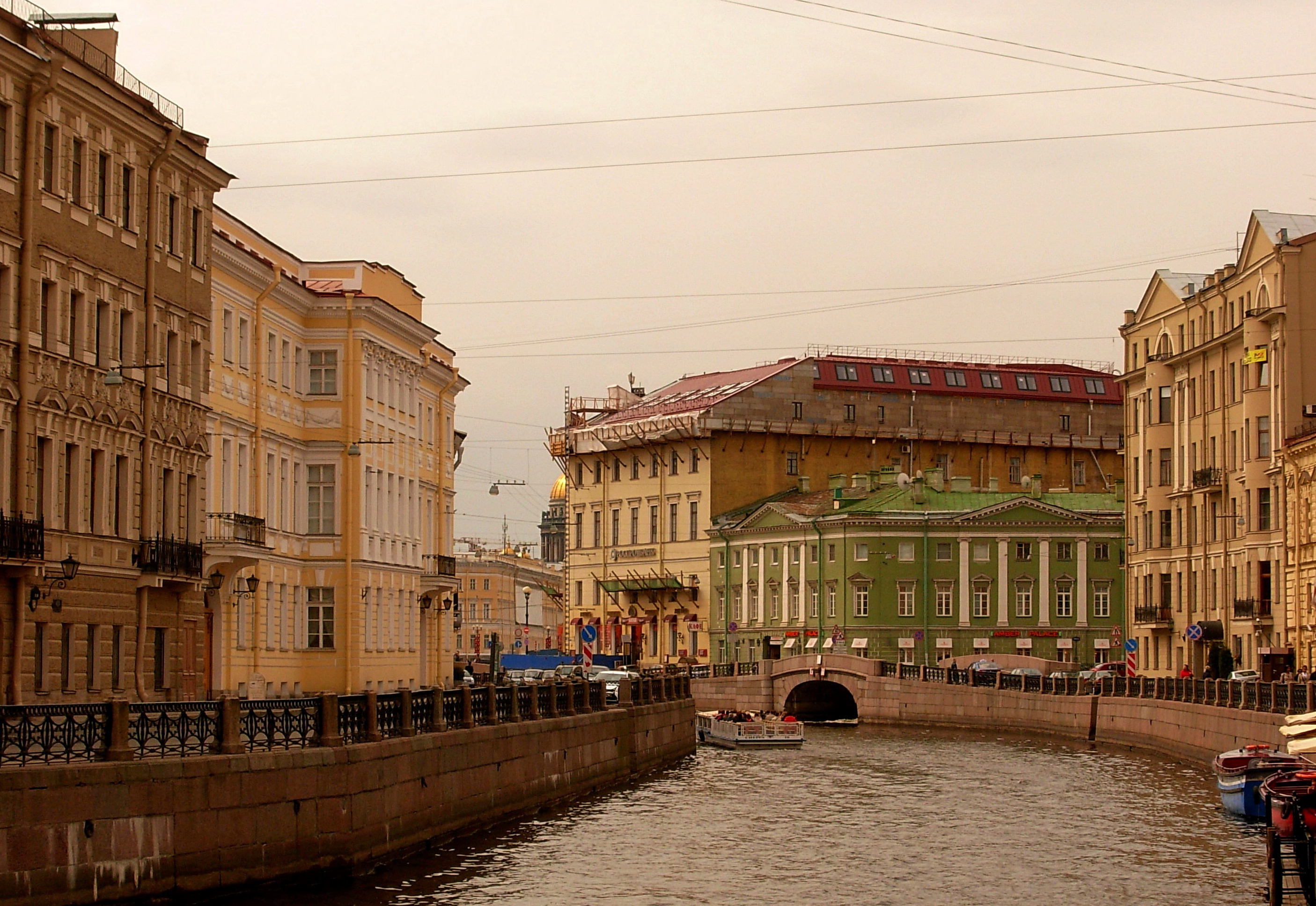 Mojka River in Sankt Peterburg